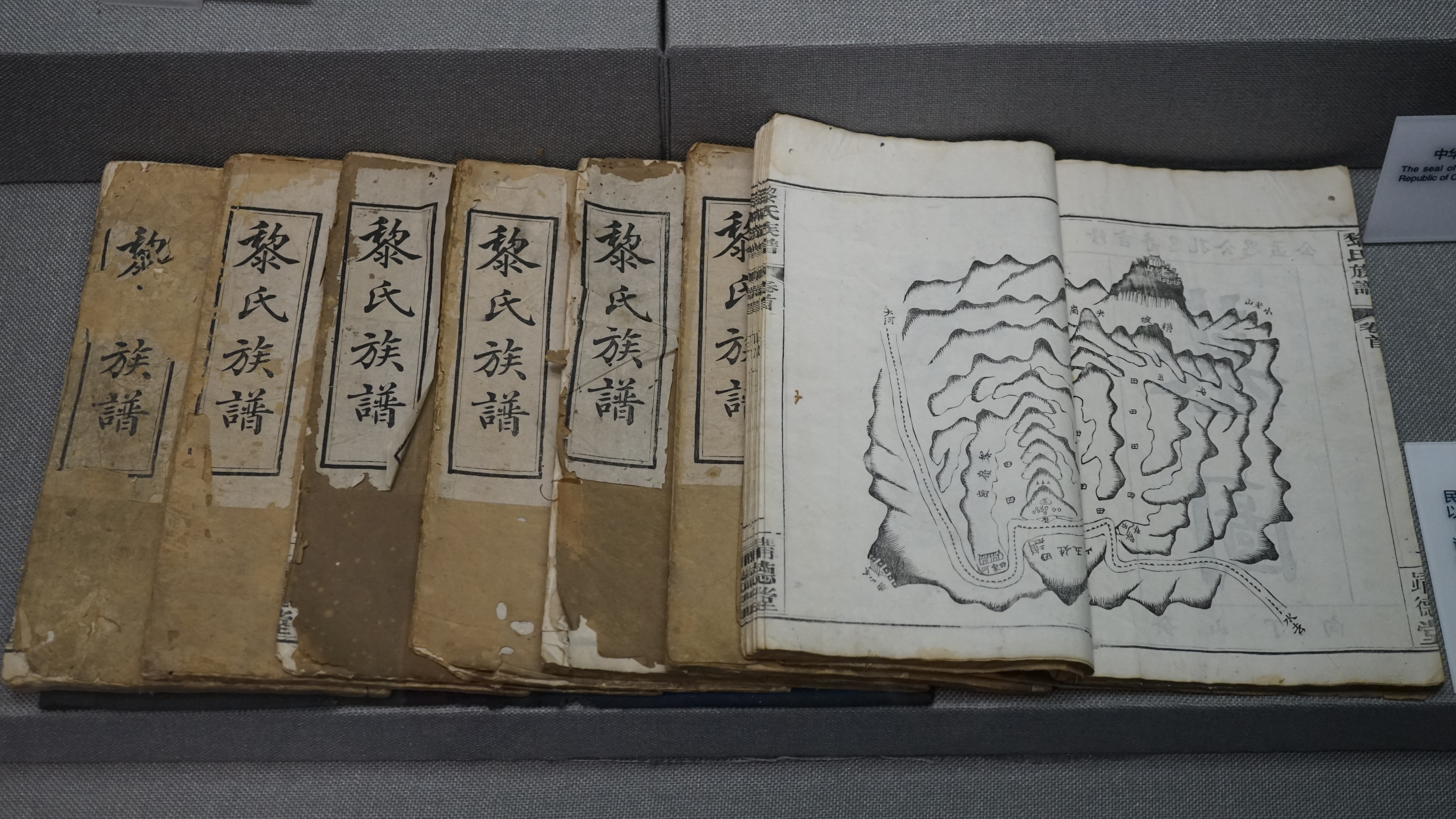 Genealogy of Family Li, which recorded the family history of Li Yuanhong was compiled in 3rd year of the Republic of China (1914). It recorded the origin of Li Yuanhong's family history. According to previous records, Li's ancestors was fron Susong, Anhui. But according to the genealogy his ancestors should be from Jiangxi.